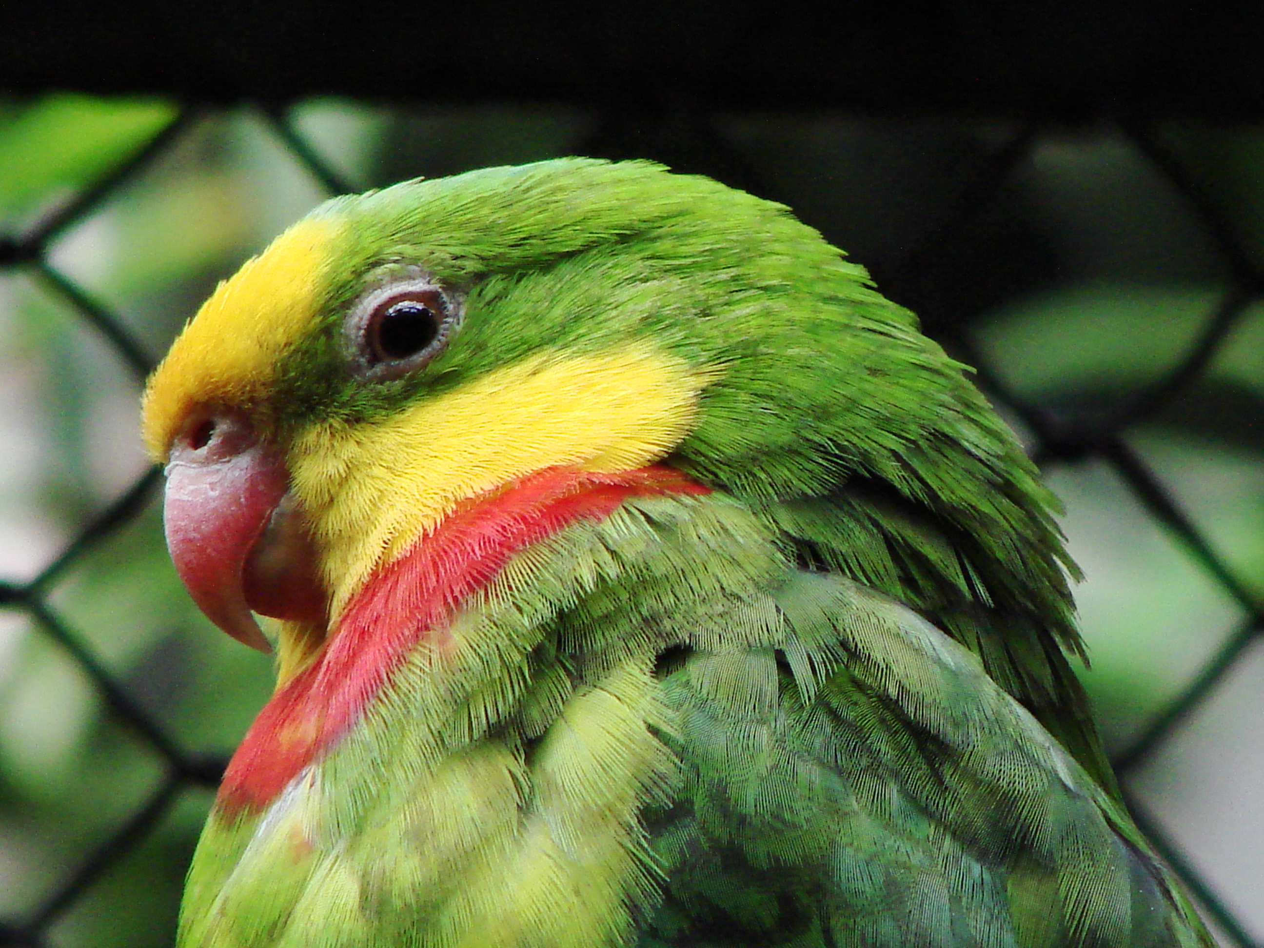 Picture taken in the zoo of Wrocław (Poland): Polytelis swainsonii (Desmarest, 1826)